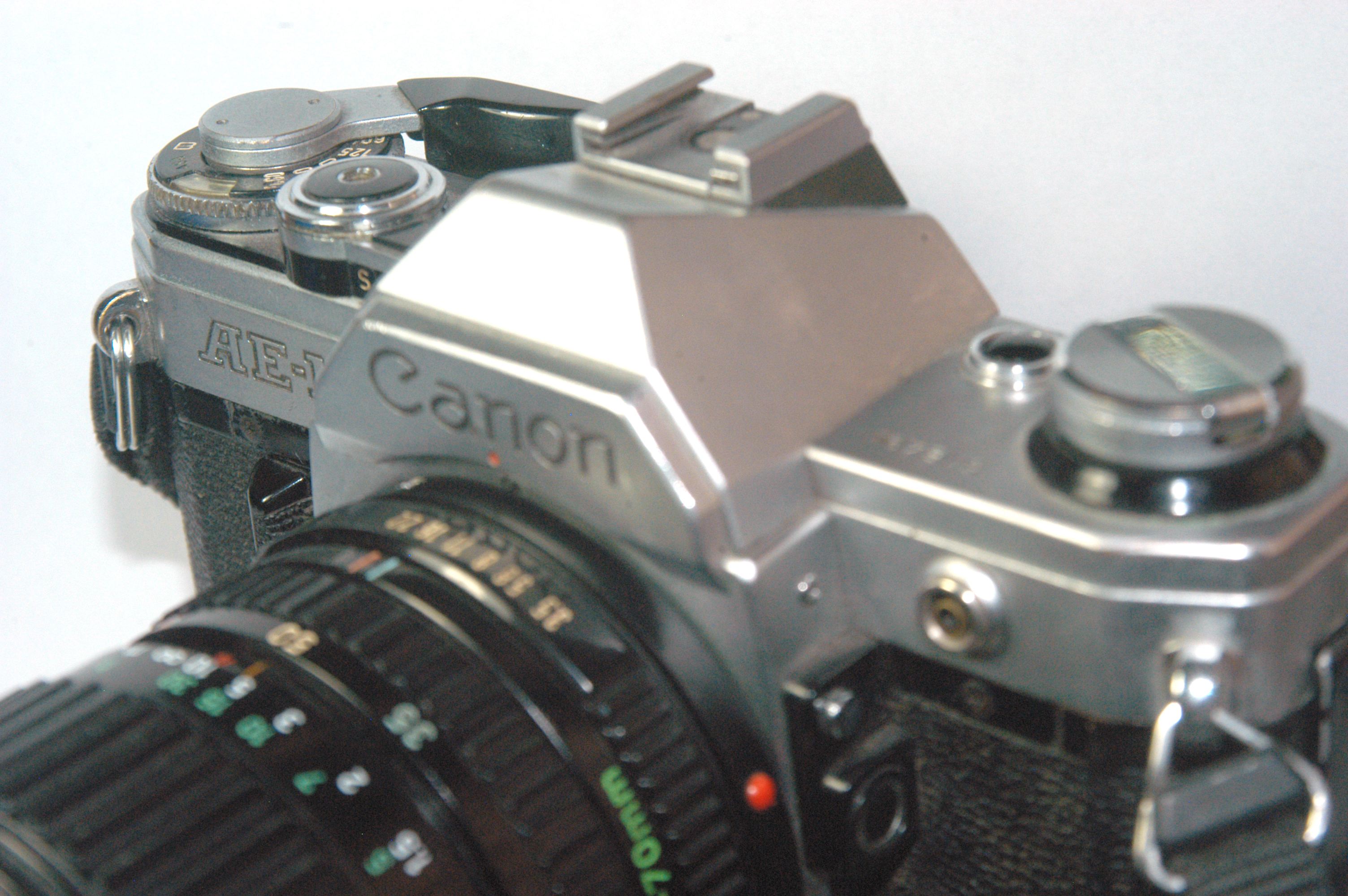 Canon AE-1